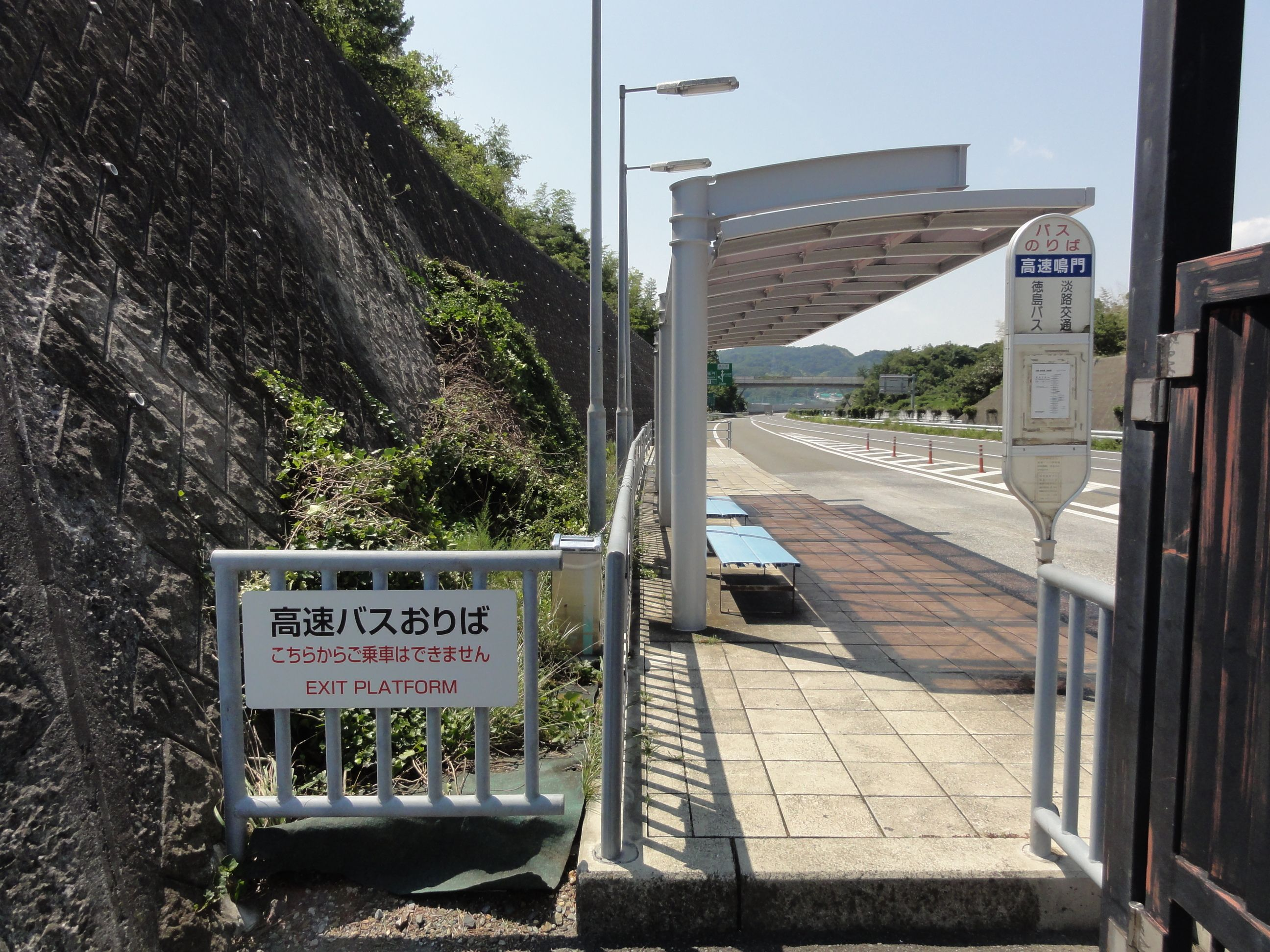 Highway Naruto Bus Stop